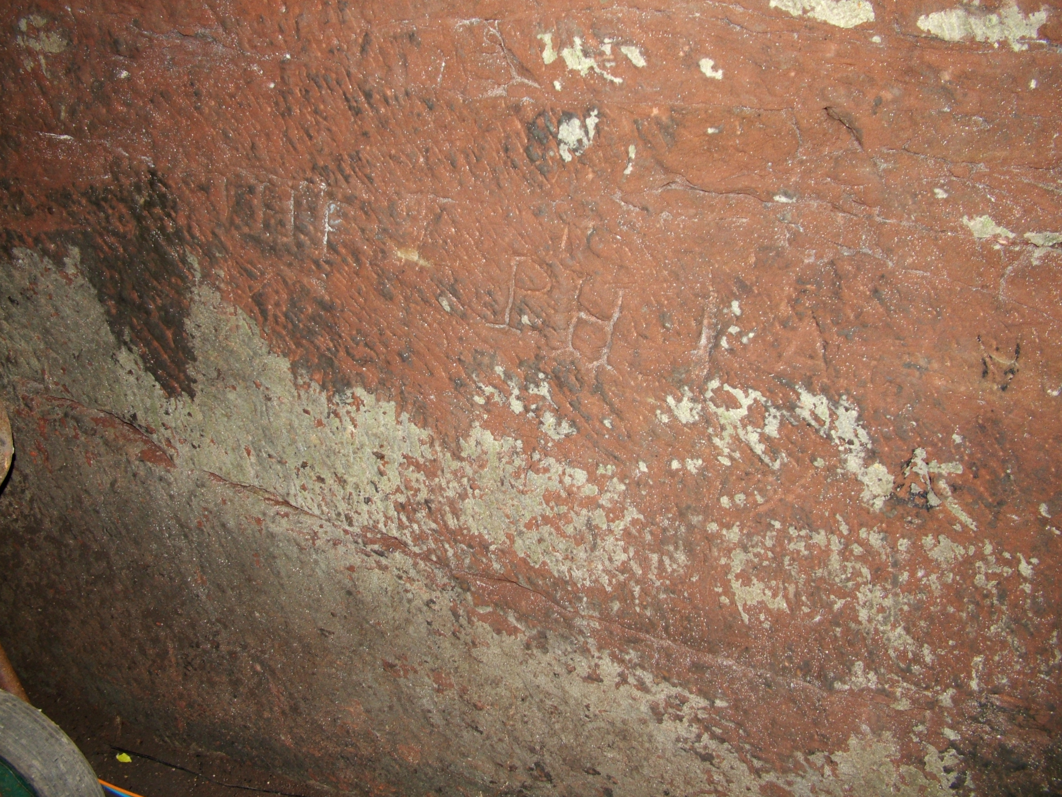 Engravings on the wall of the Williamson's Tunnels.